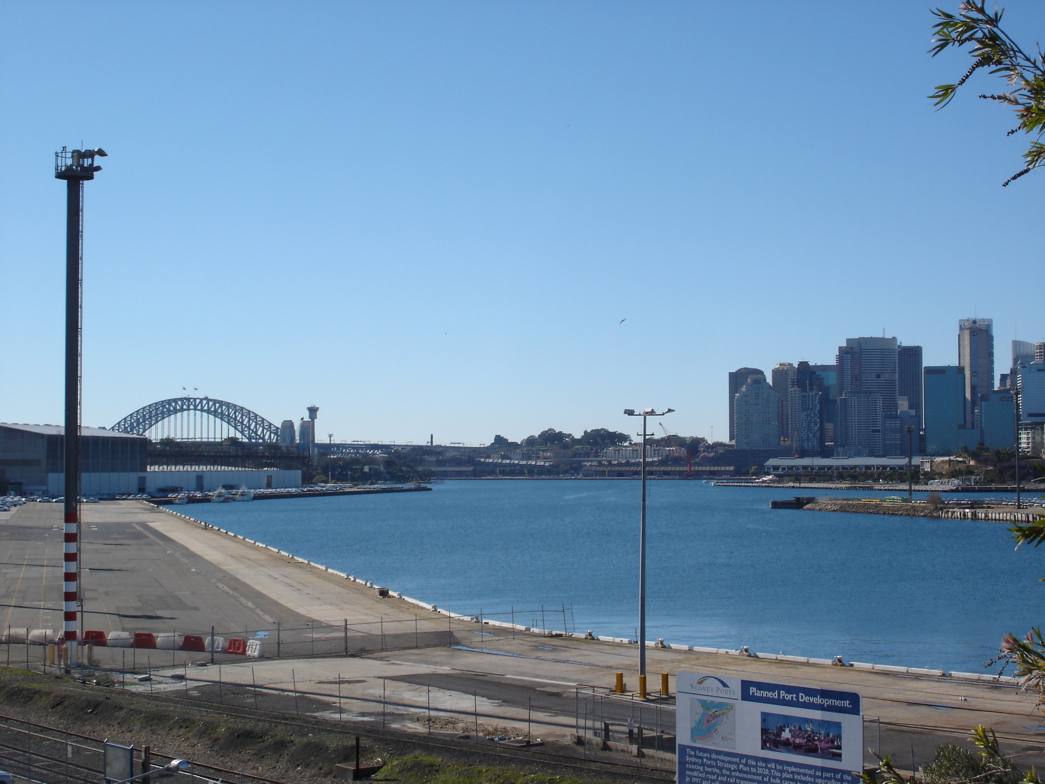 White Bay, New South Wales. Picture taken 29/7/06 by user Amitch.